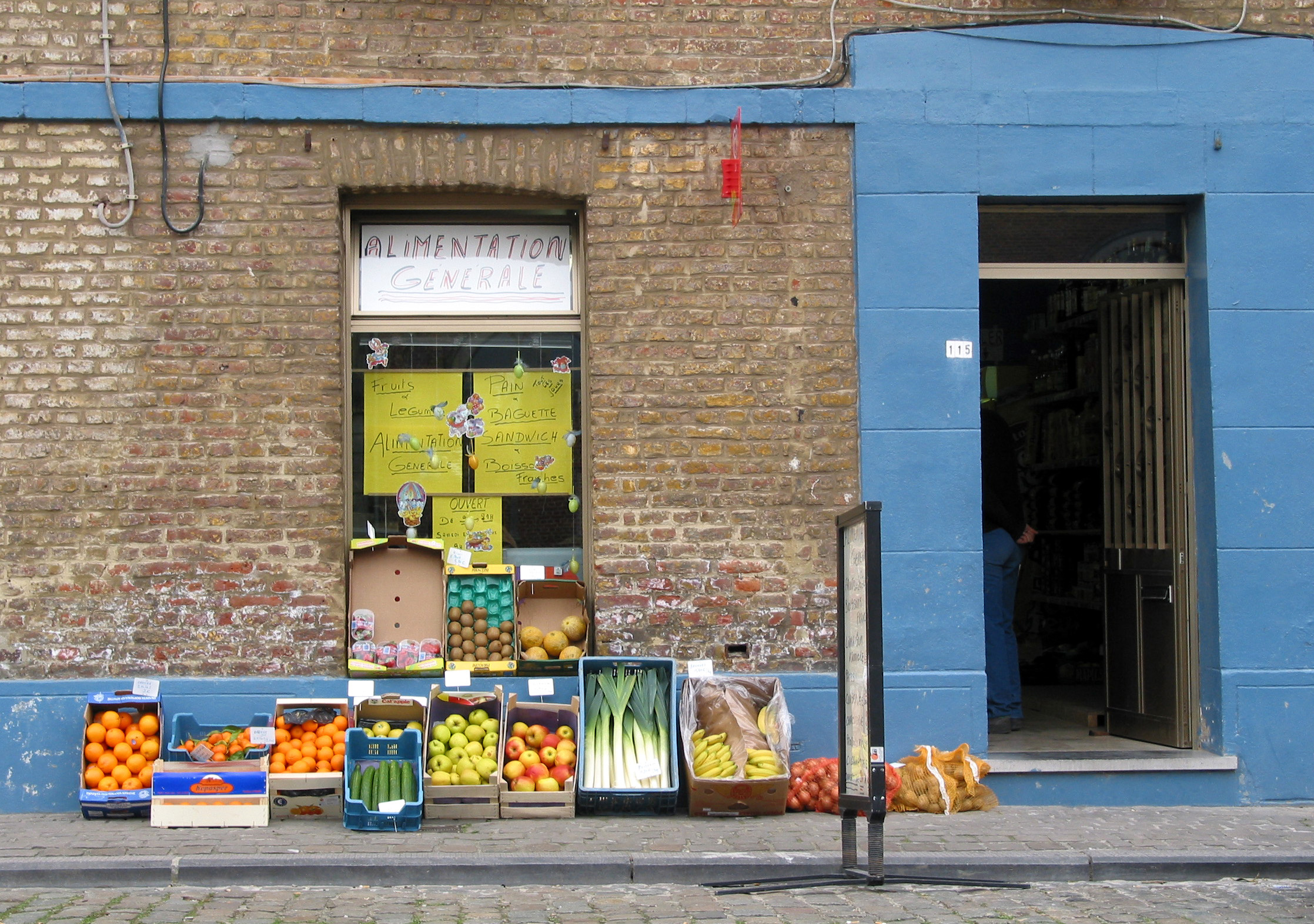 Hornu (Belgium), the smallest shop in the miner's cottage.